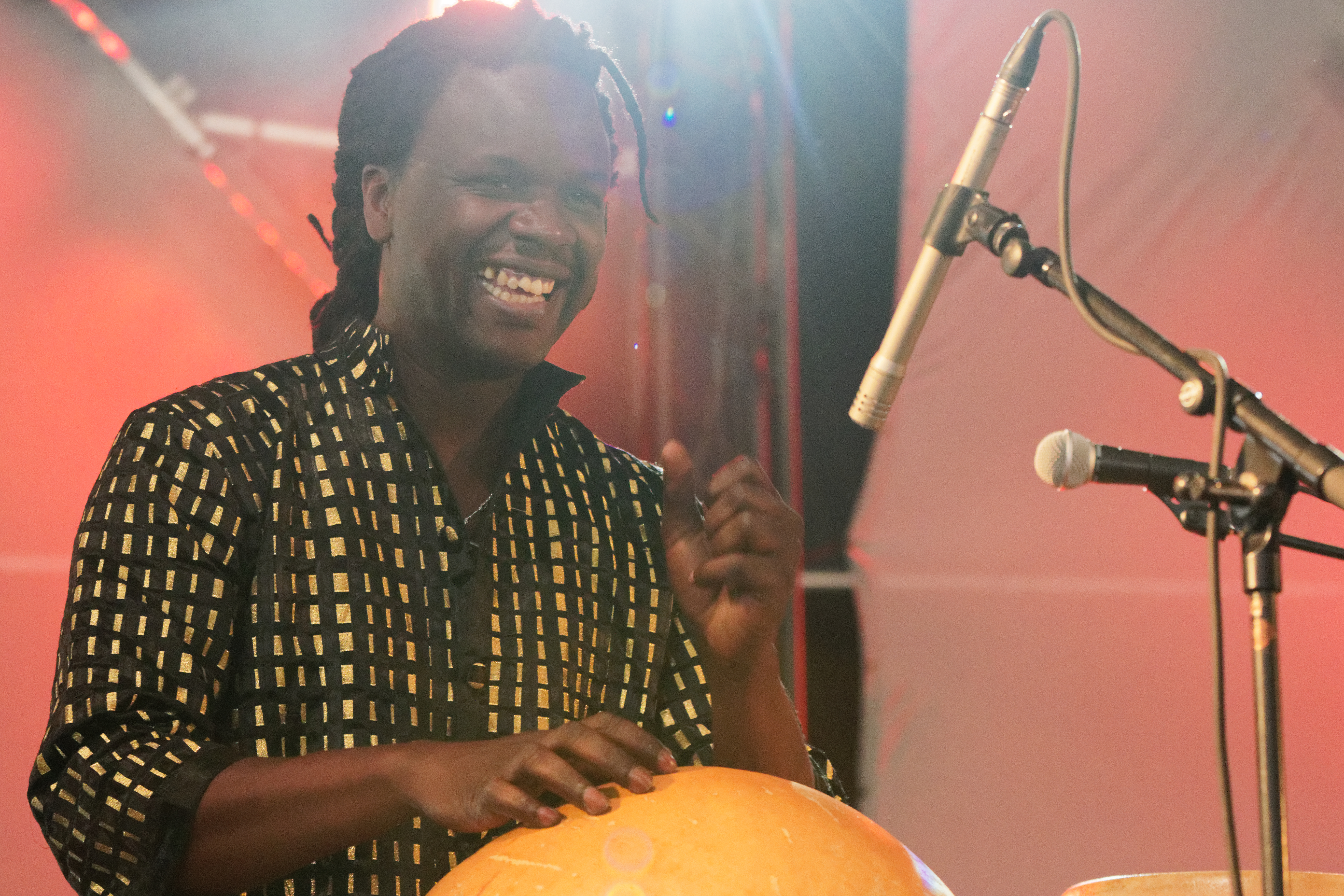 Sona Jobarteh in concert. Percussionist player playing the african instrument Calabash.